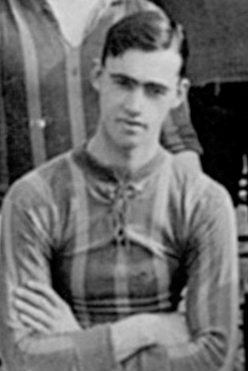 Fred Chapple while with Brentford FC 1912/13